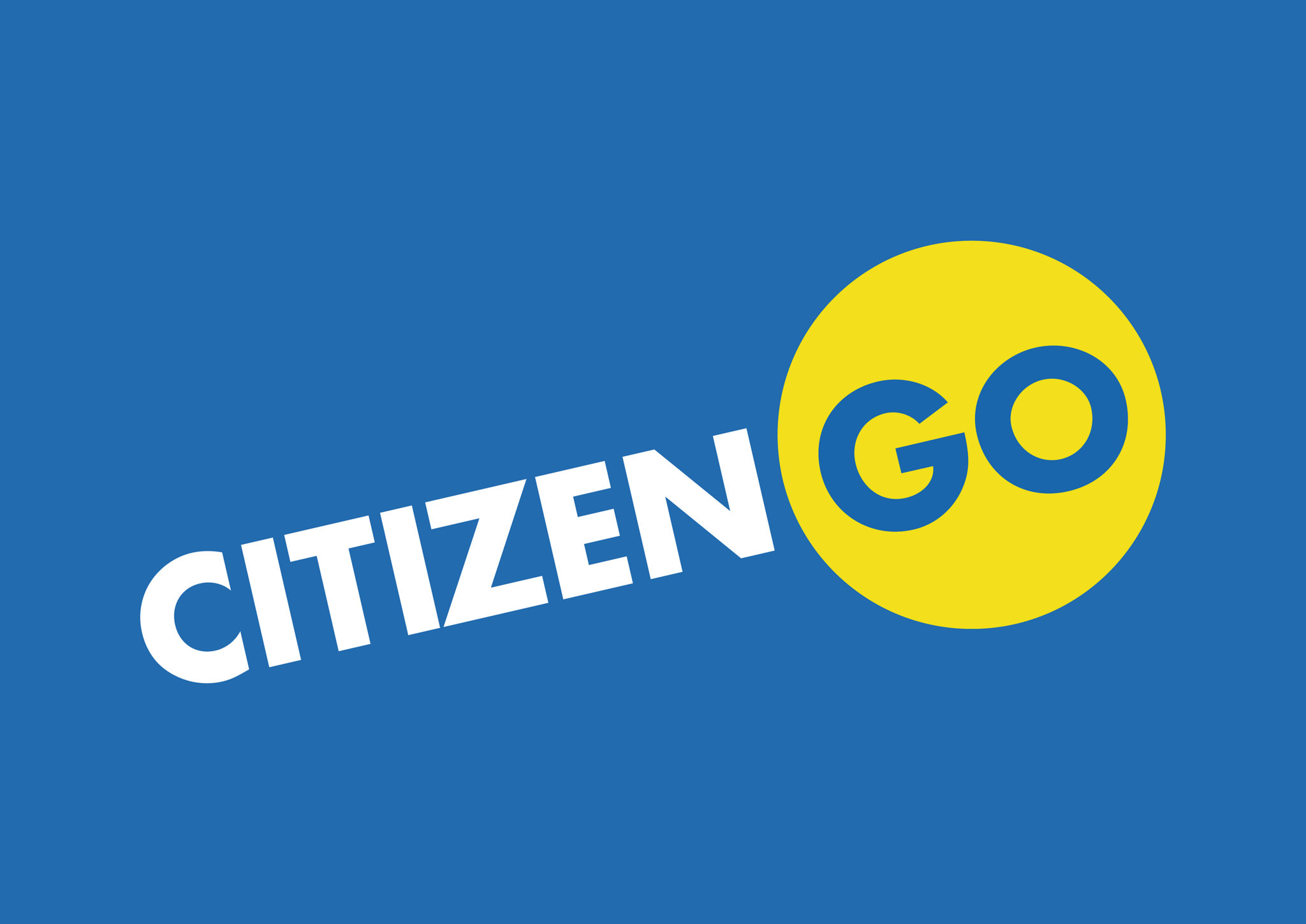 CitizenGO negative logo